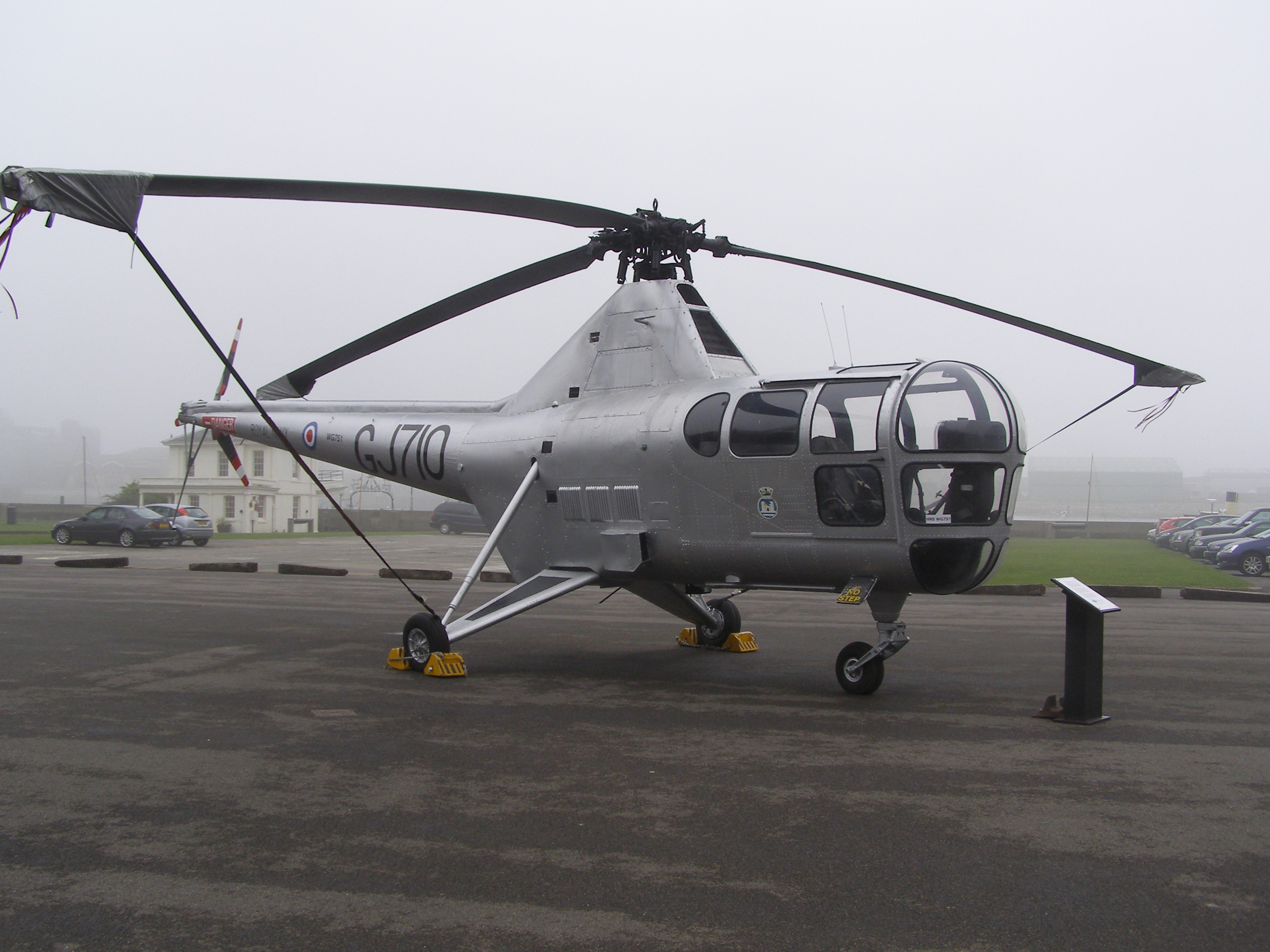 Former Royal Navy Westland Dragonfly HR5 on display at the Chatham Historic Dockyard, Kent, England